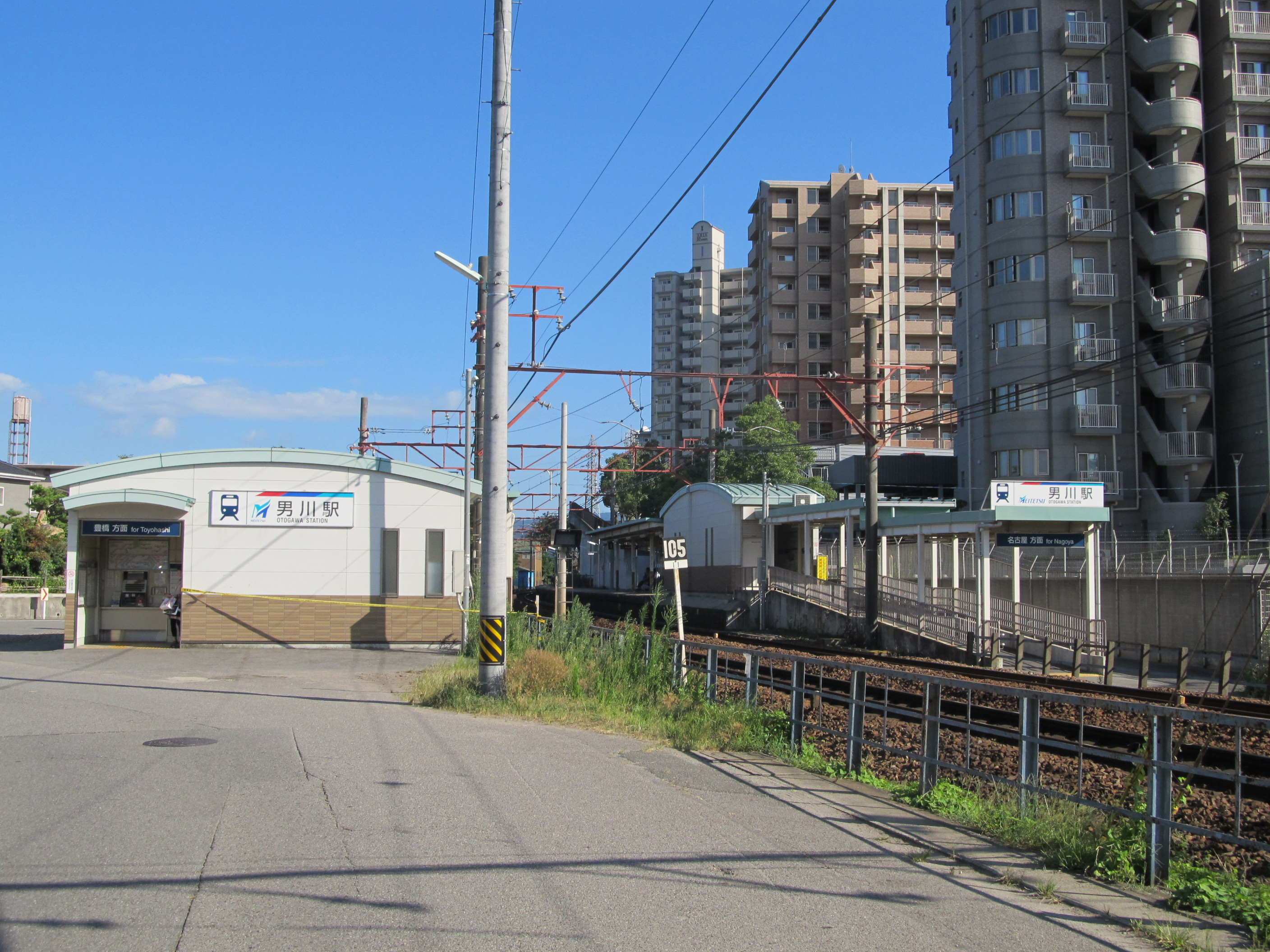 Nagoya Railroad Nagoya Main Line Otogawa Station Building